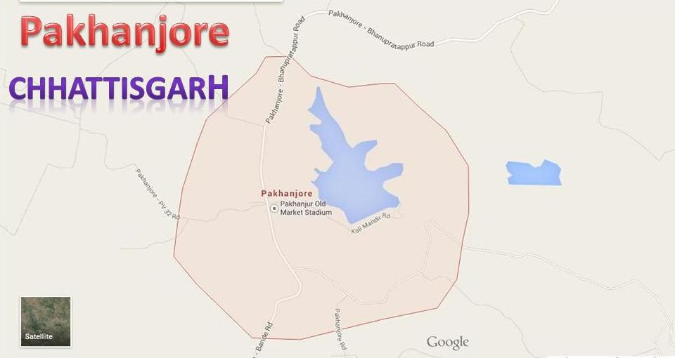 Pakhanjore